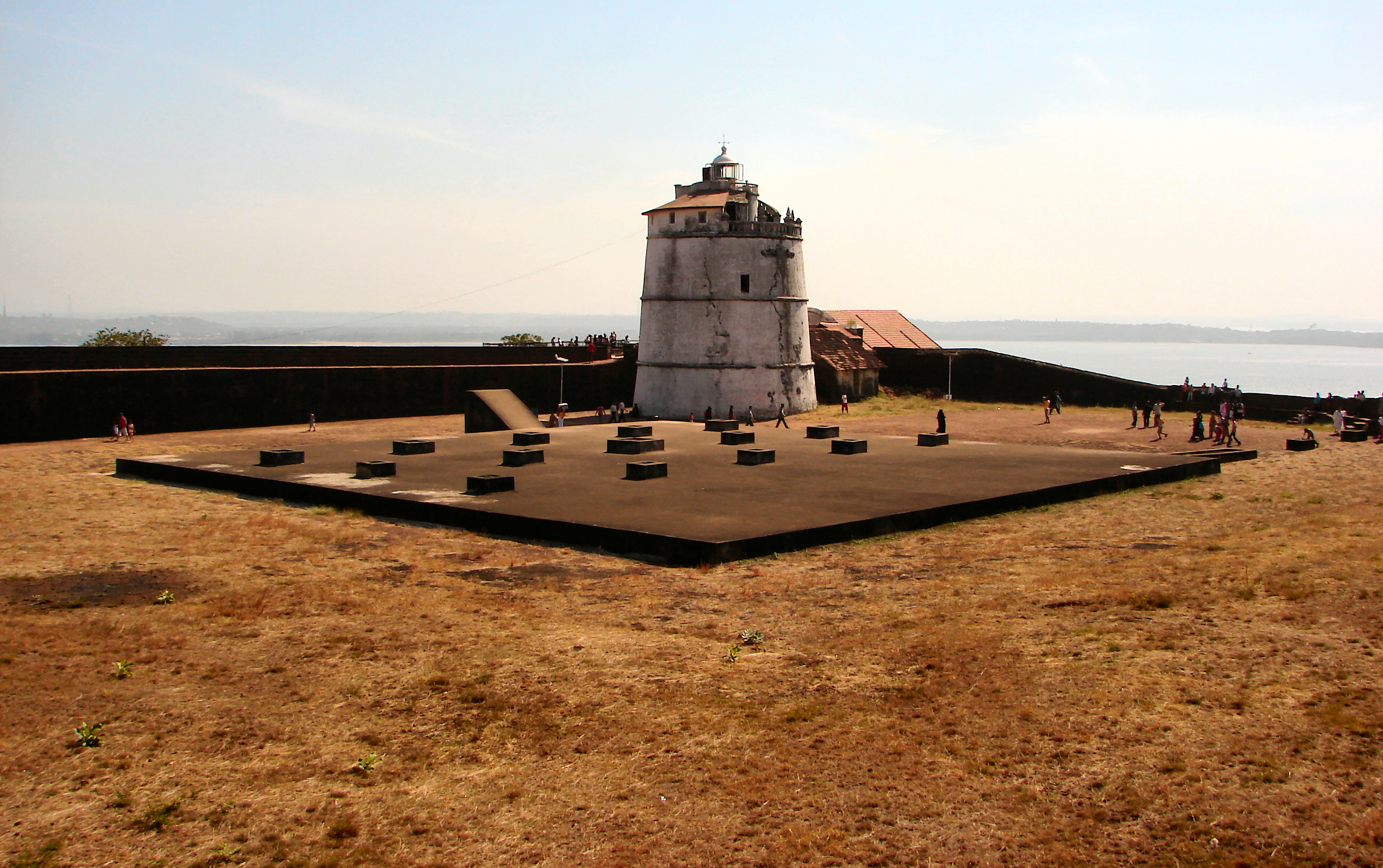 The lighthouse of Fort Aguada in the back, the covers of the huge reservoir in front of it. In the background and to the left you can see parts of the city Panaji of Goa, India.